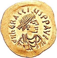 Tremissis of Heraclius.